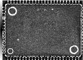 C-Sam generated image